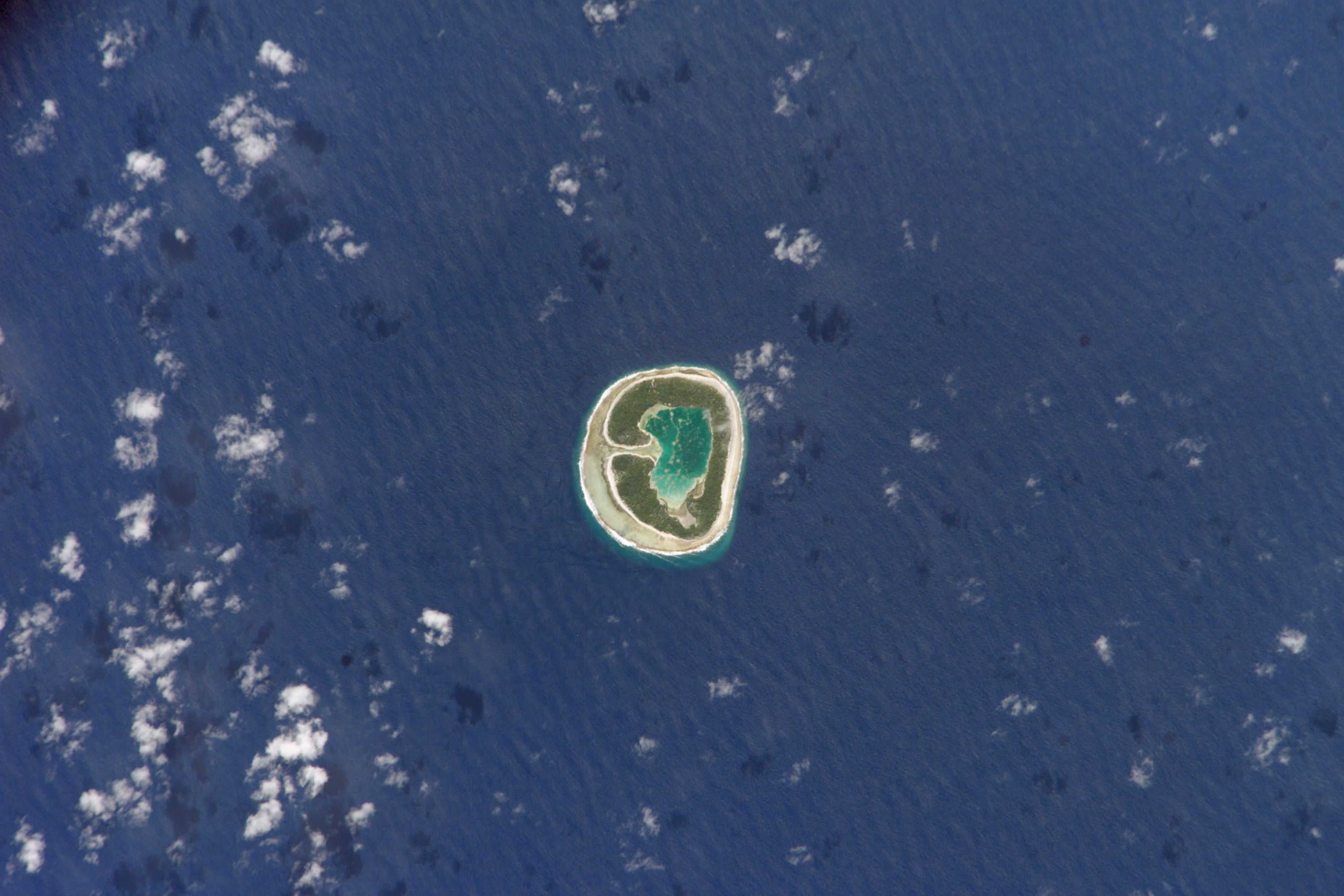 NASA Astronaut Image of Pinaki Atoll (Tuamotu Archipelago, French Polynesia) in the Pacific Ocean